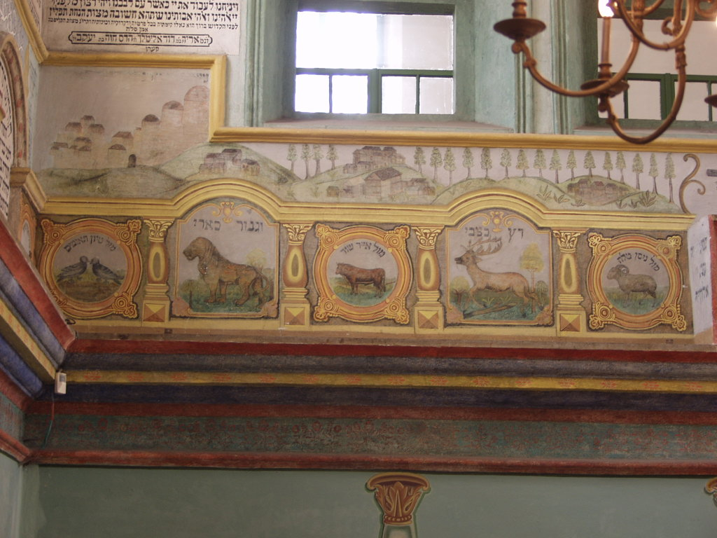 Synagogue in Łańcut